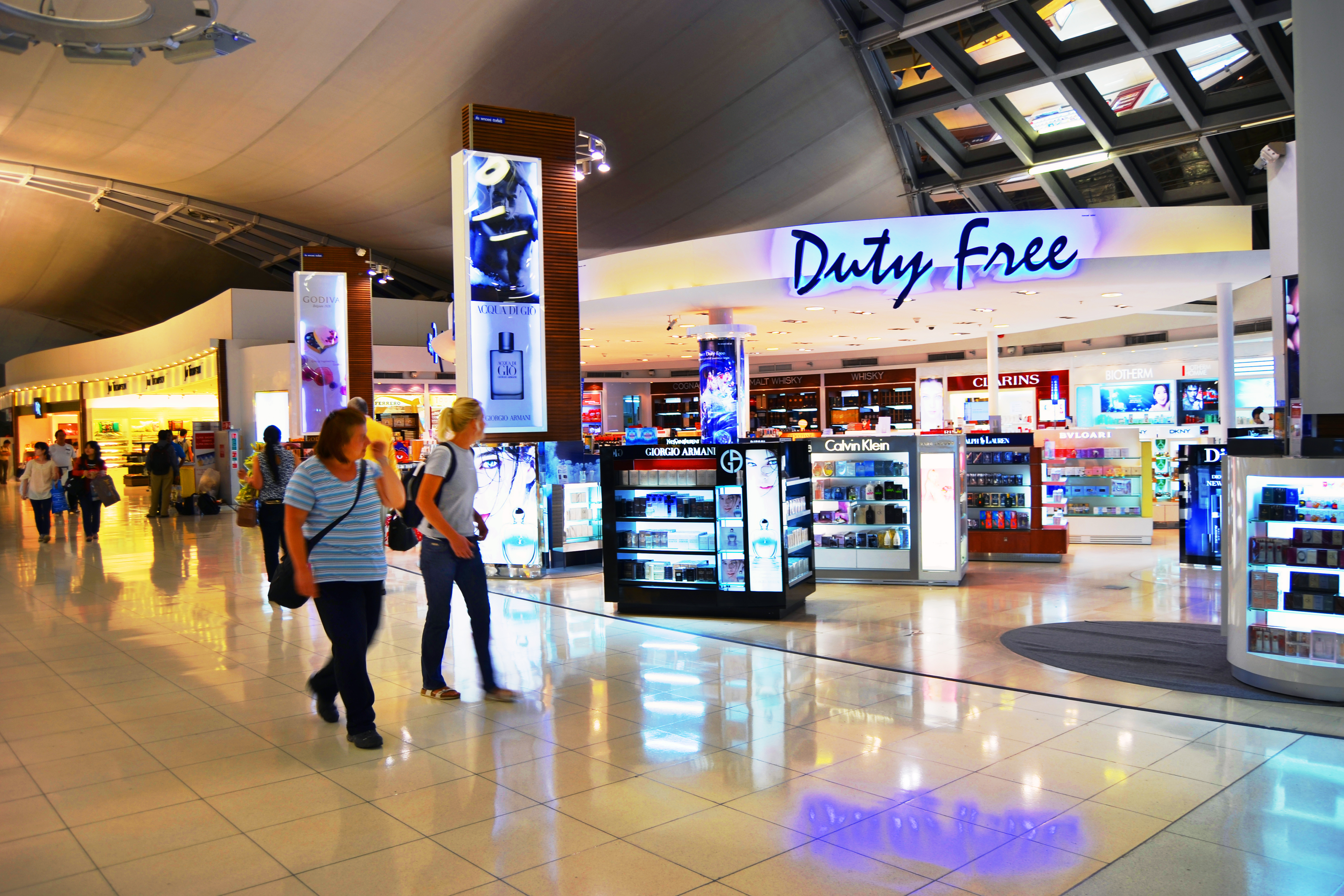 Suvarnabhumi Airport Inside